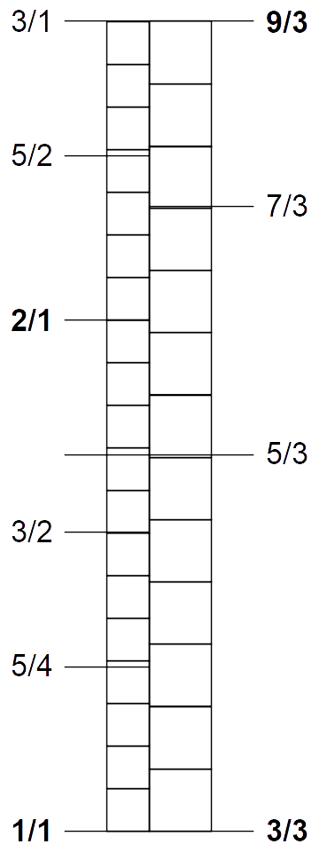 12 tone equal temperament intervals (left) compared with 13 tone equal temperament tritave based Bohlen-Pierce tuning (right).